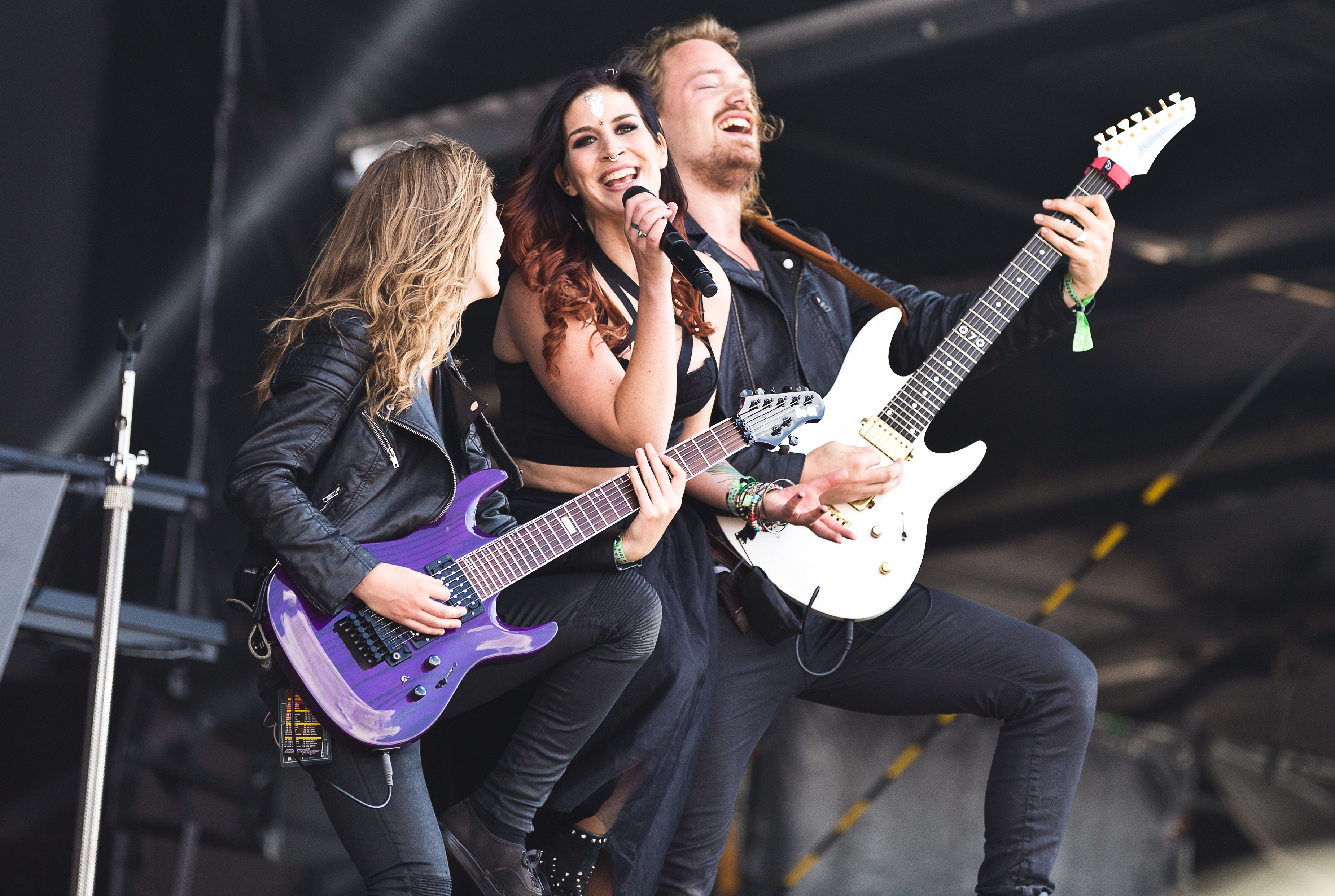 The Dutch symphonic metal band Delain at the Rockharz Open Air 2015 in Ballenstedt/Germany.